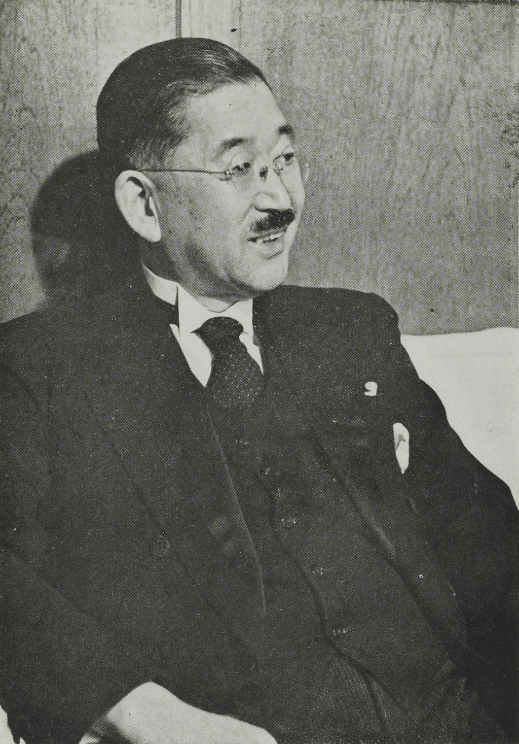 Portrait of Okochi Masatoshi (大河内正敏, 1878 – 1952)